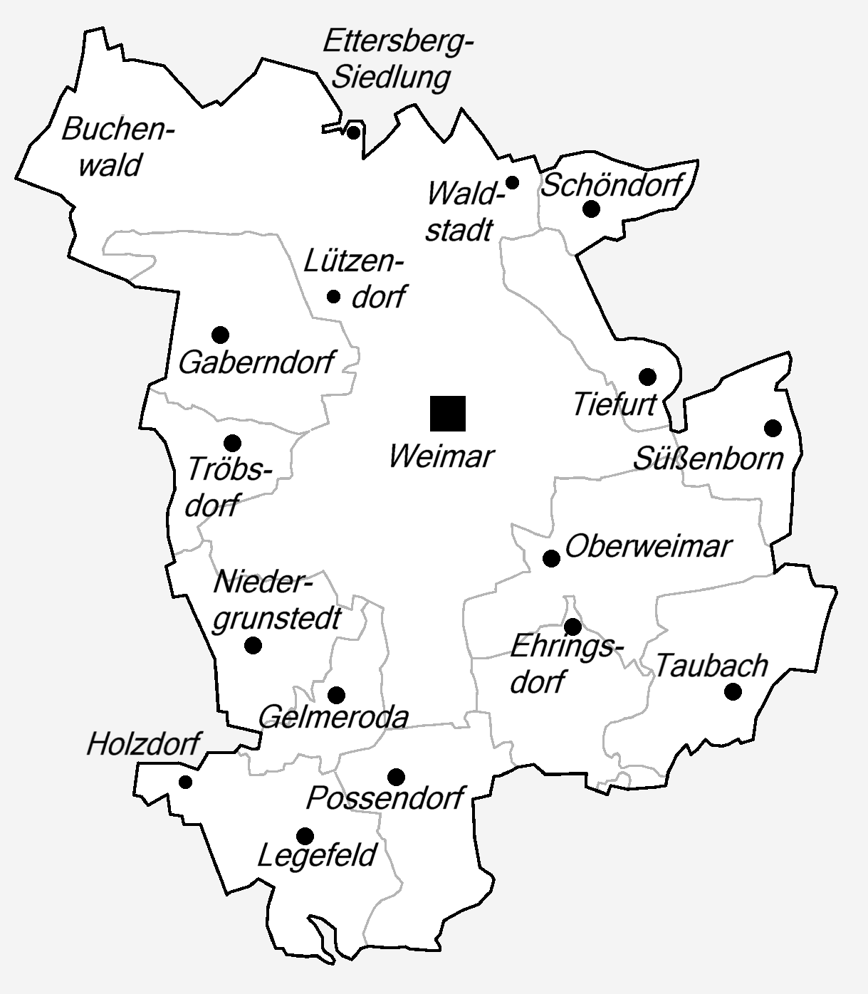 District-Map of Weimar in Thuringia.